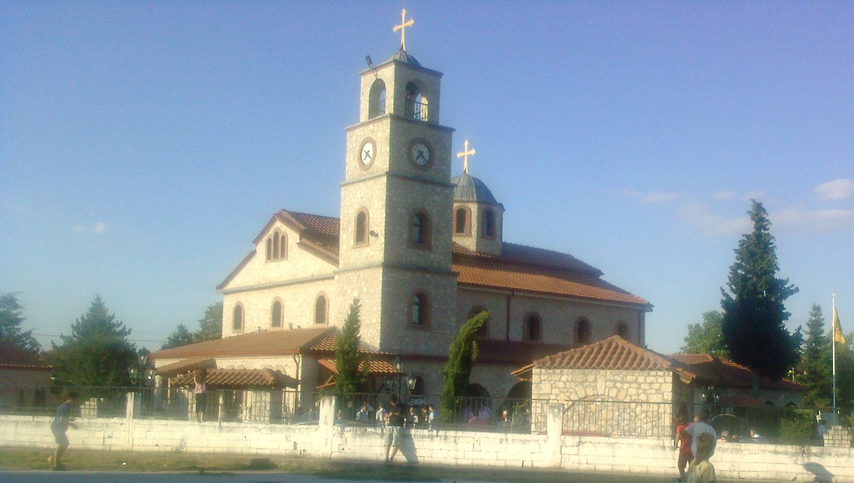 Church of Ardassa/Suplovo, Aegean Macedonia, Greece